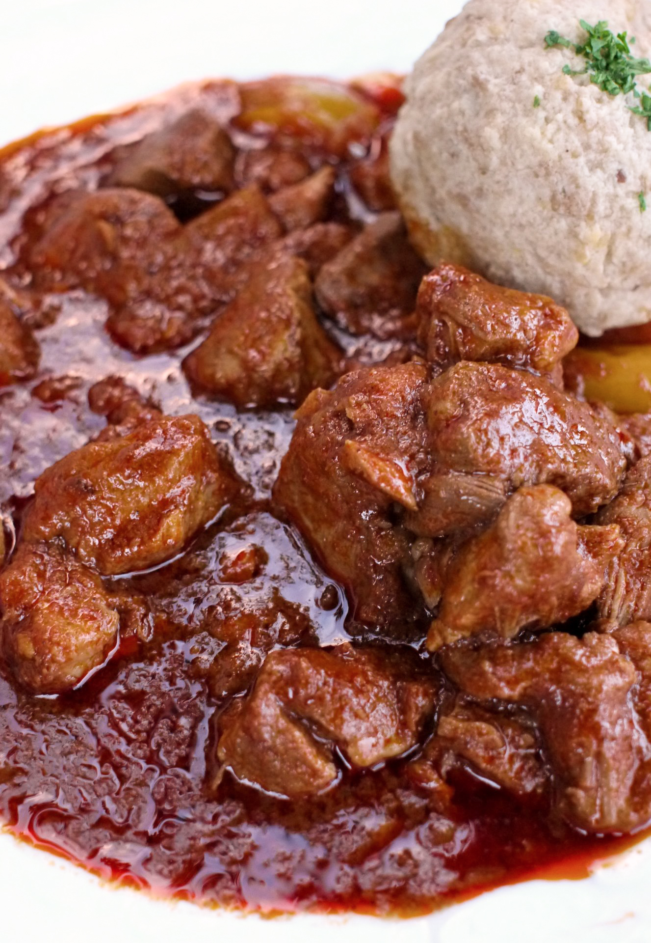 A Bavarian Gulash halb halb is made with a mix of beef and pork (halb halb meaning "half half"). Here it is served with a Semmelknödel: a bread dumpling.